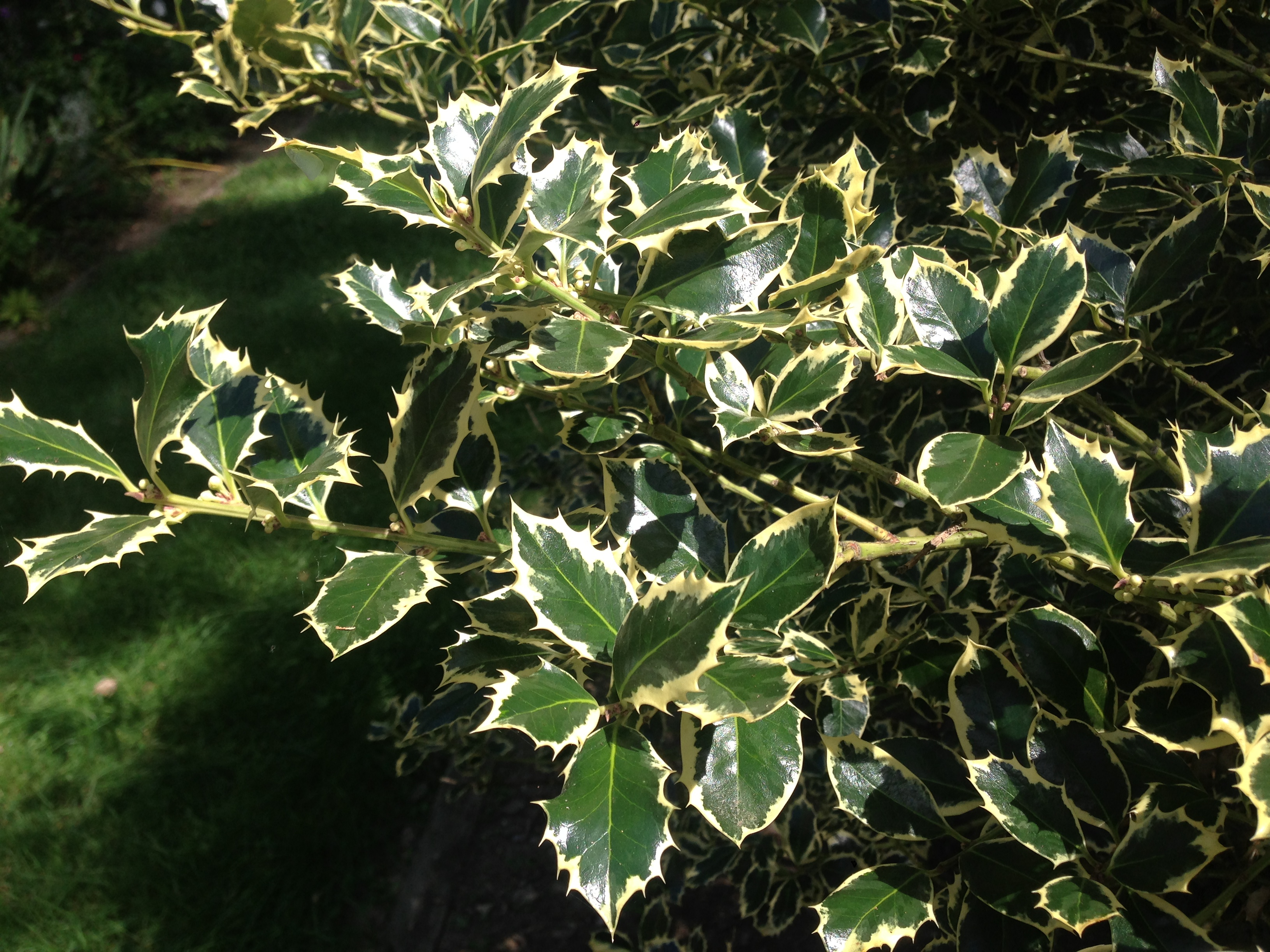 Variegated English Holly at the Pinelands Preservation Alliance headquarters in Southampton Township, New Jersey